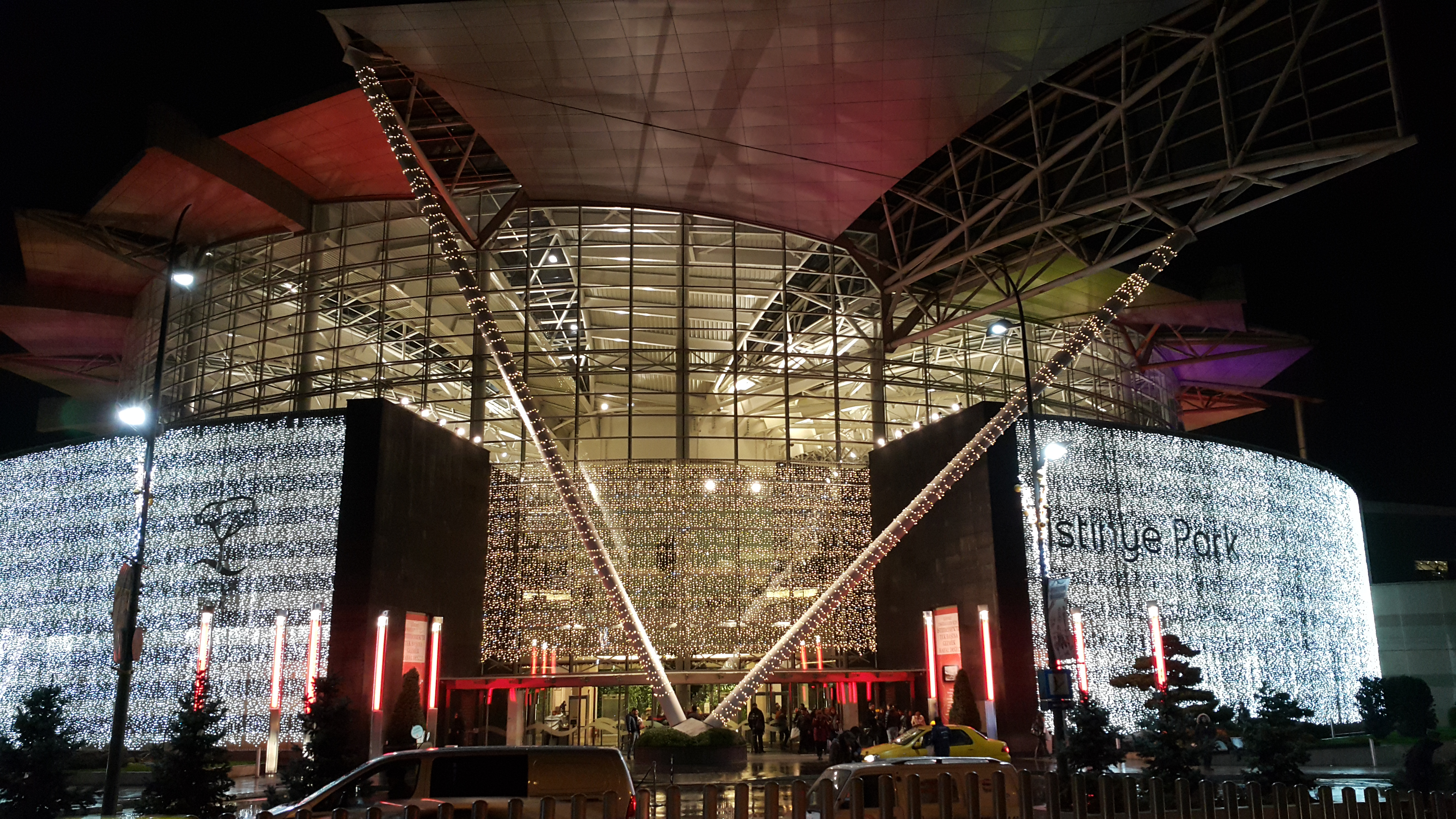 İstinye Park Mall, Istanbul, Turkey.